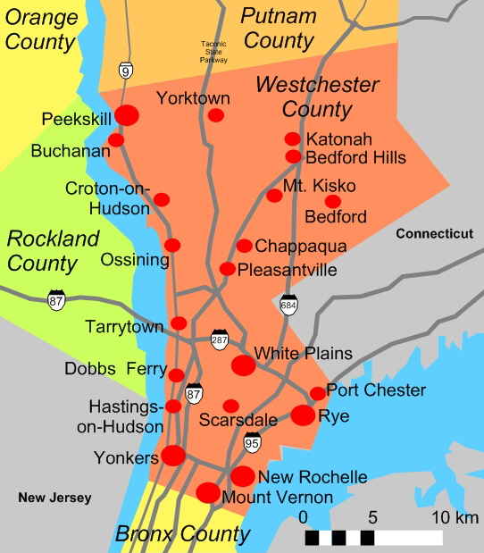 Map of Westchester County, NY